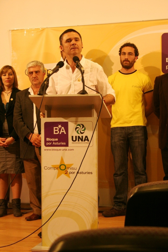 Asturian politician